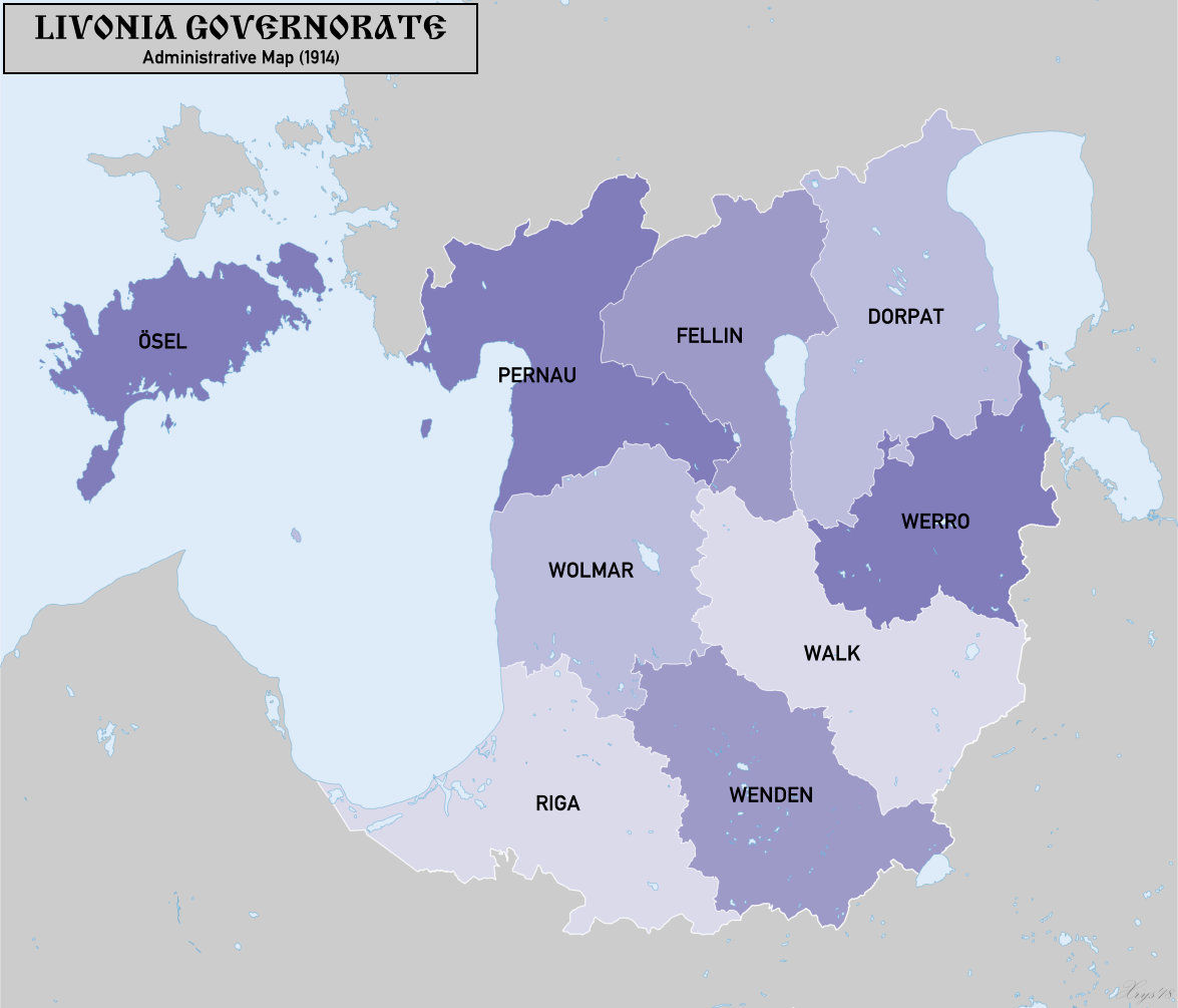 Map of the Livonia Governorate of the Russian Empire in 1914 showing districts. Source Map Data: Специальная карта европейской России (1:420k), Ubersichtskarte von Mitteleuropa (1:300k), courtesy of